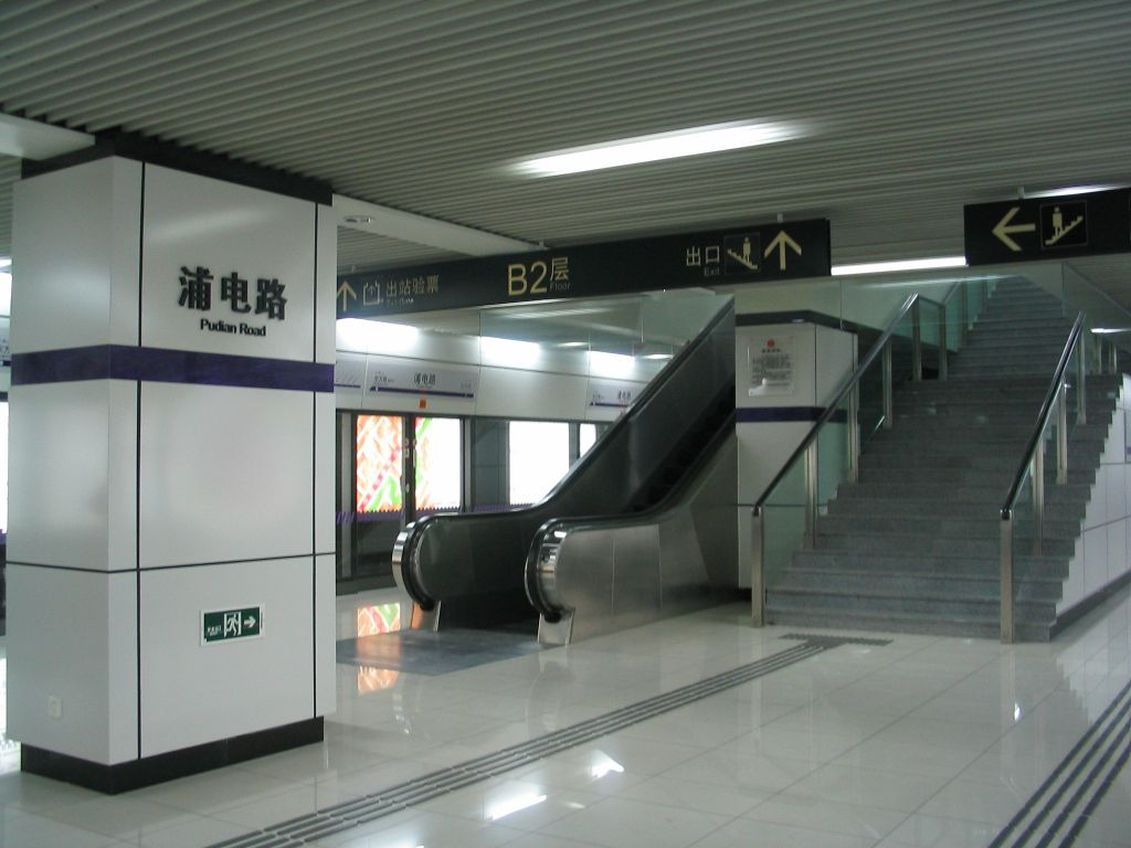 浦電路站-4號線月台 Line 4 Platform of Pudian Road Station